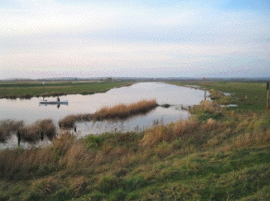 Photo of river Treene near Wohlde